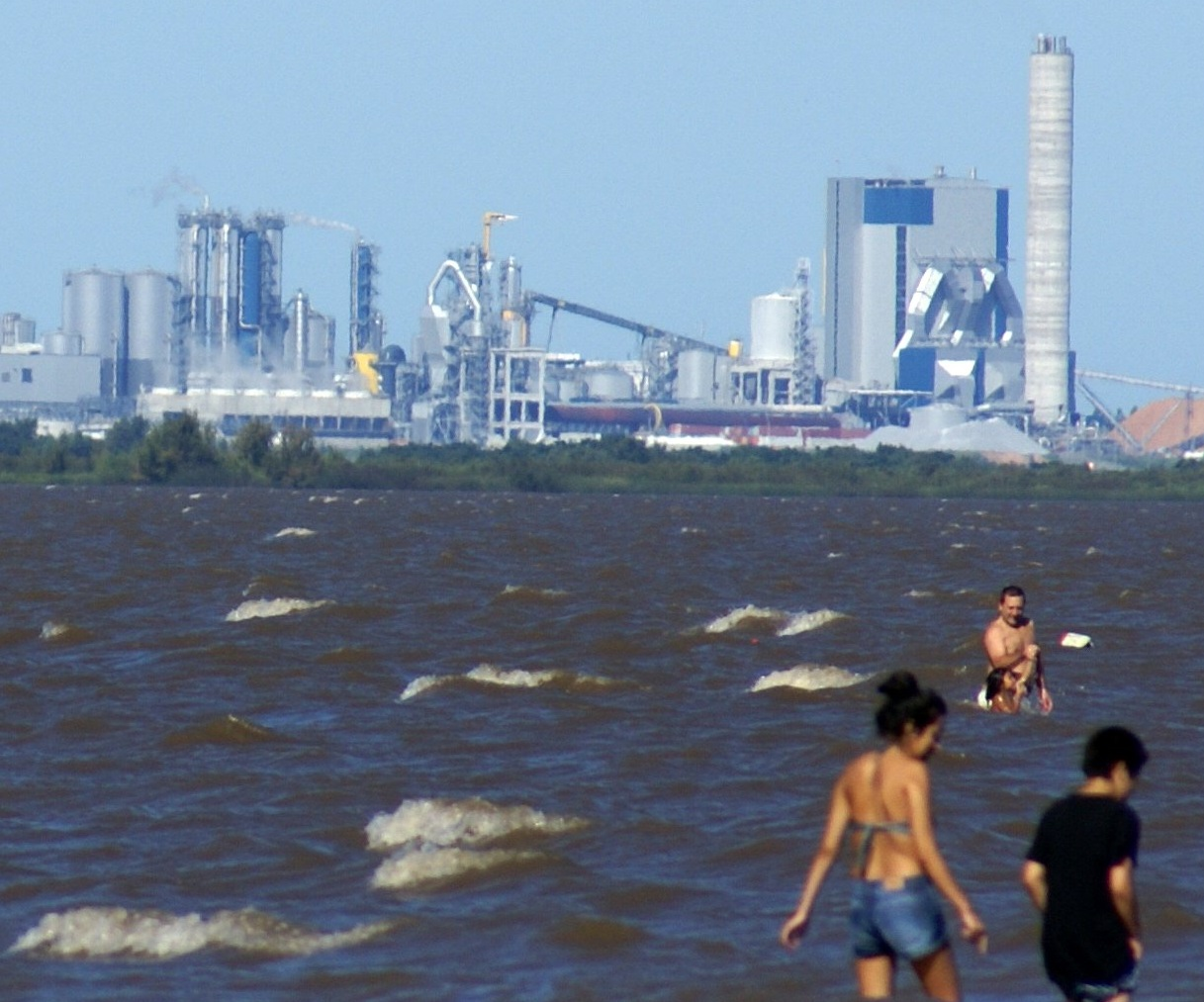 Botnia's cellulose plant over the Uruguay River, seen from the Argentine coast, at Ñandubaysal beach. Planta de celuosa de Botnia sobre el río Uruguay, vista desde la costa argentina, en la playa Ñandubaysal.